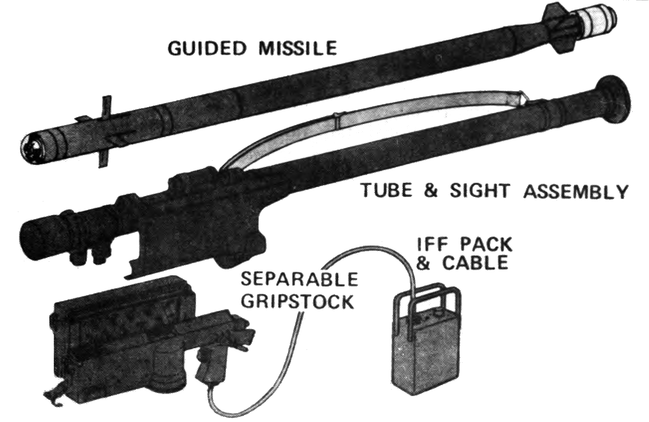 Stinger weapon system